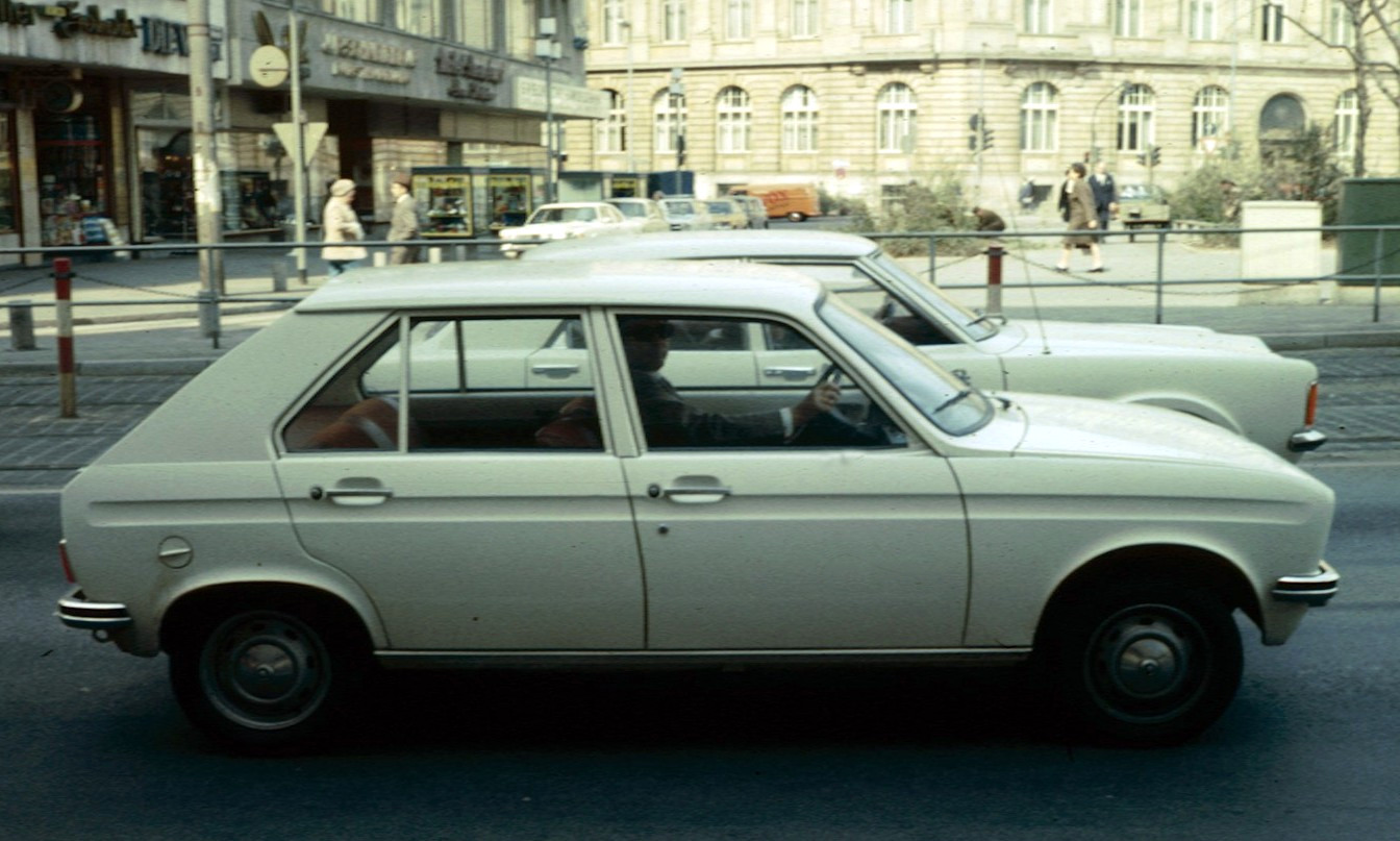 Peugeot 104 (one of the early ones) in Frankfurt am Main